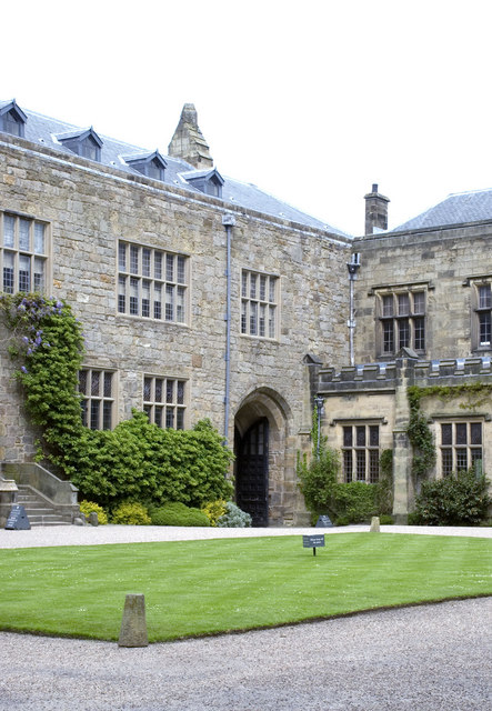 Chirk Castle National Trust, Inner Court north west view